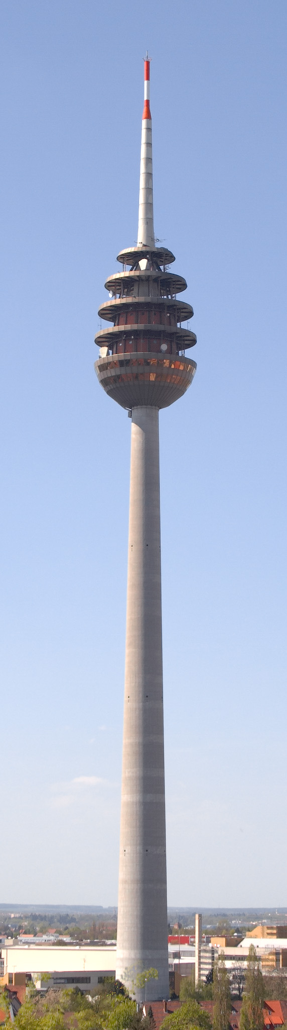 Picture of the TV Tower in Nuremberg in full view.